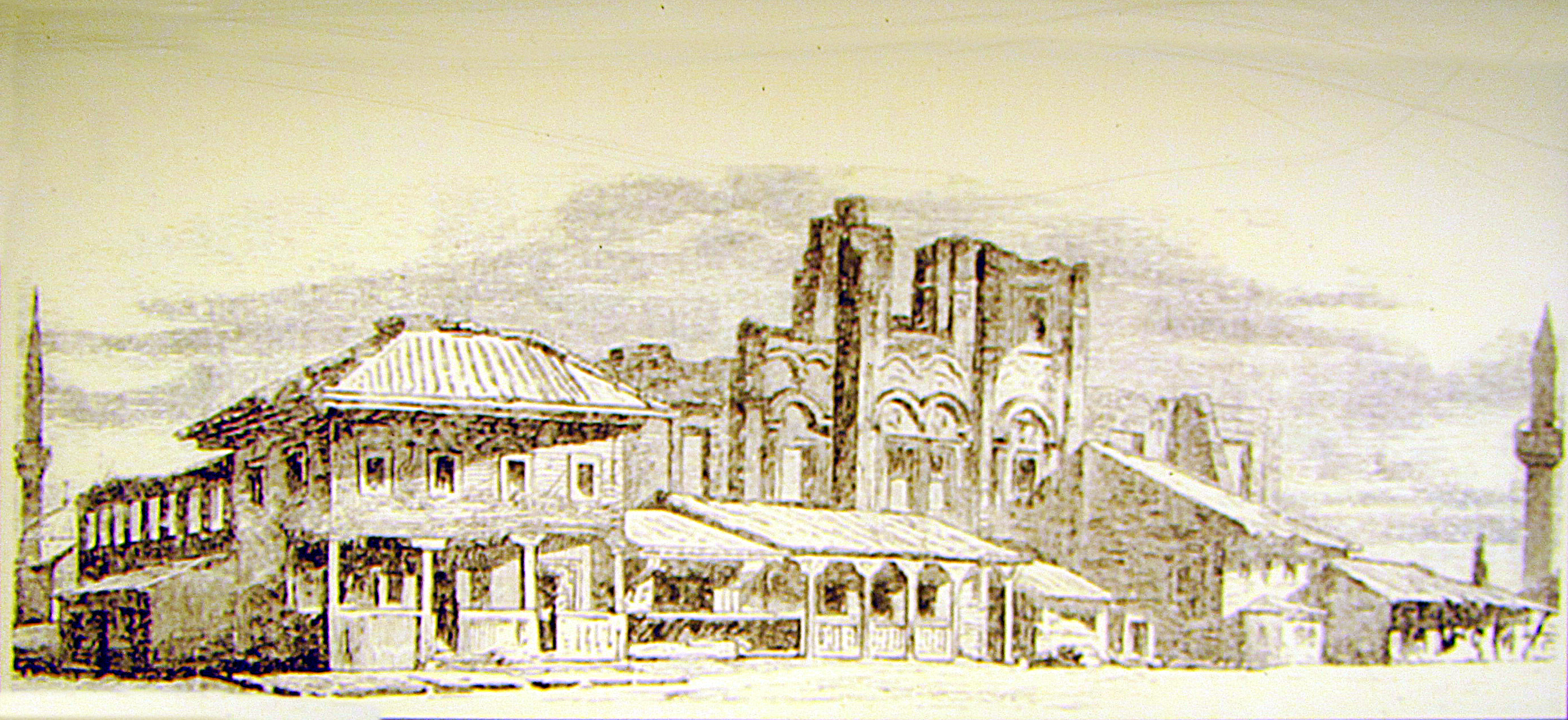 Remains of Palace of Prince Eugene of Savoy in Belgrade